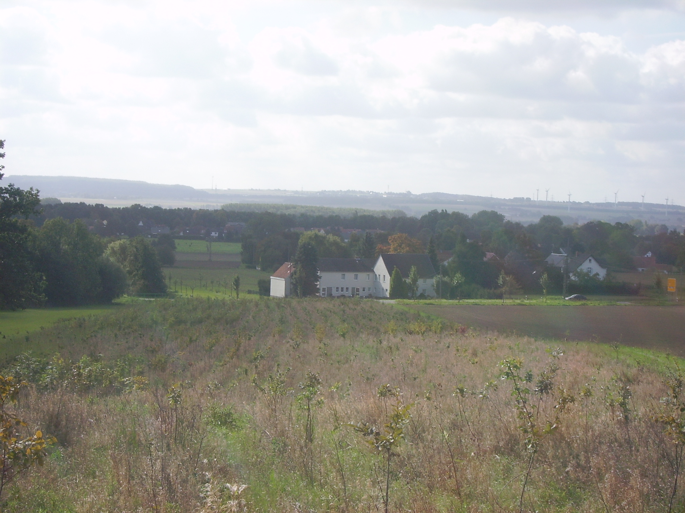 The countyside of Lenningsen with the first hills from the Sauerland in the background.